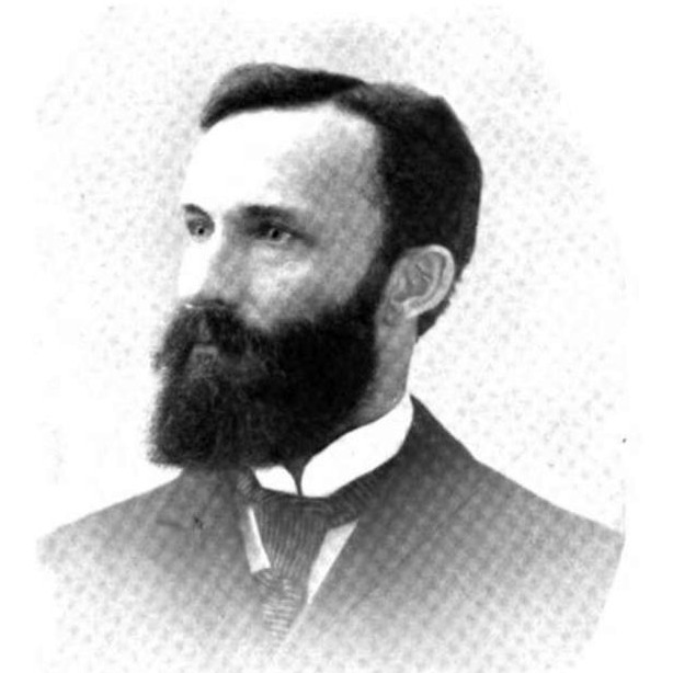 George W. McBride, U.S. Senator from Oregon